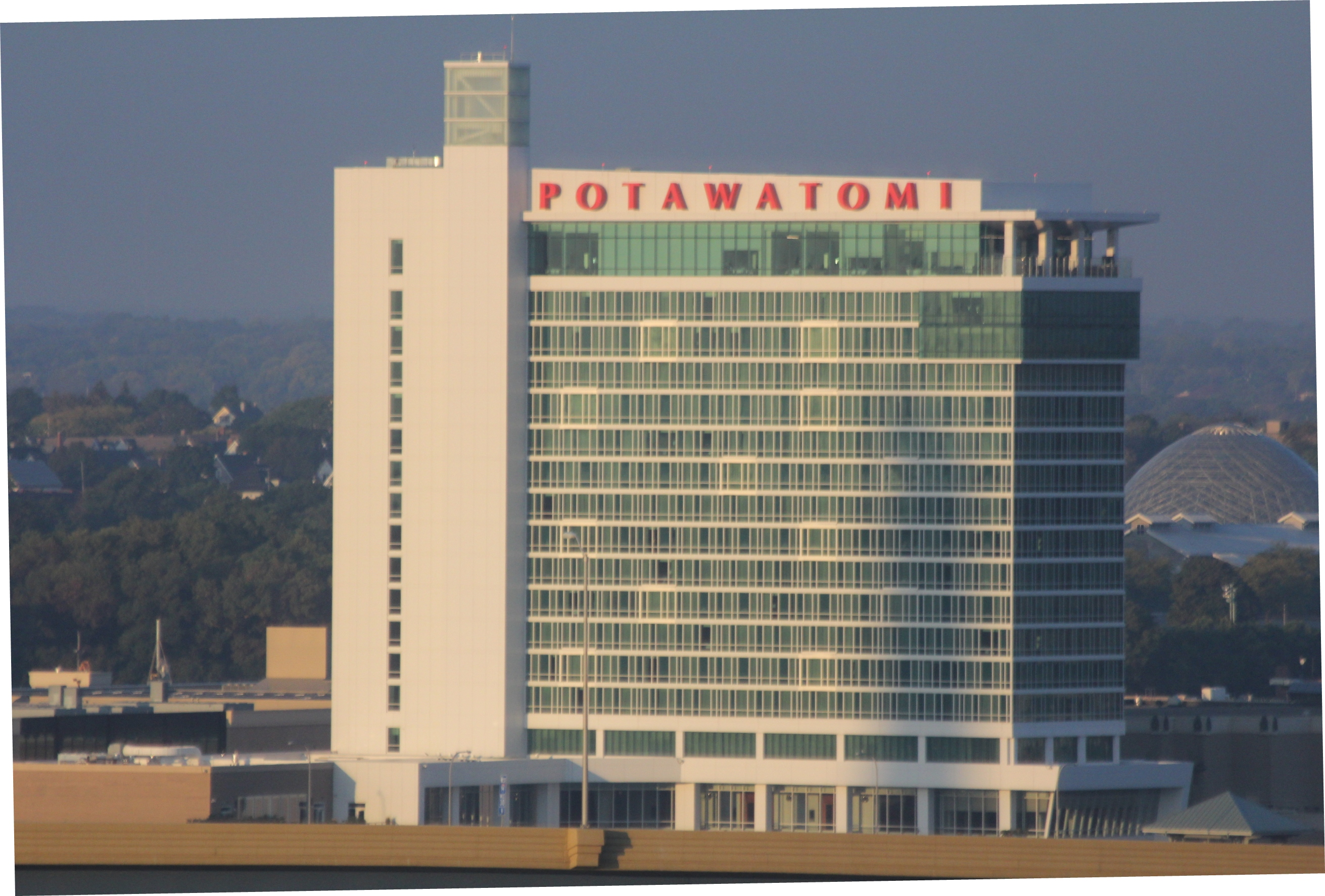 The Potawatomi Hotel & Casino from a nearby skyscraper.